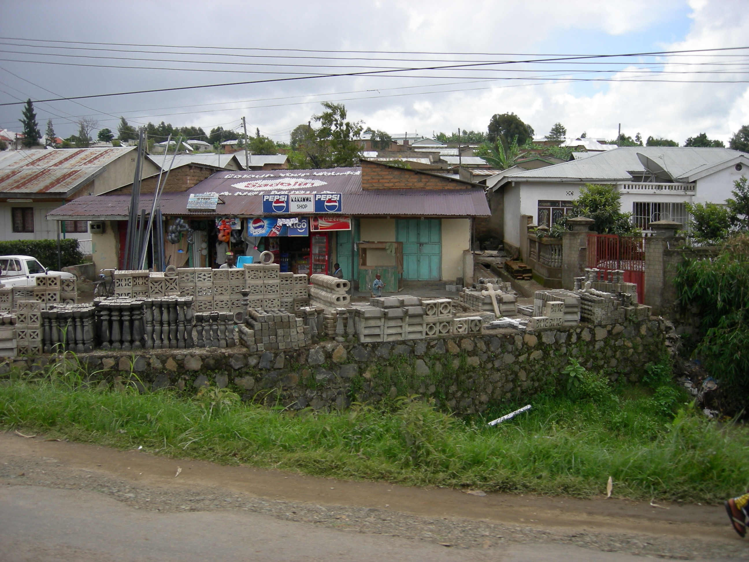 Mbeya shop, Tanzania